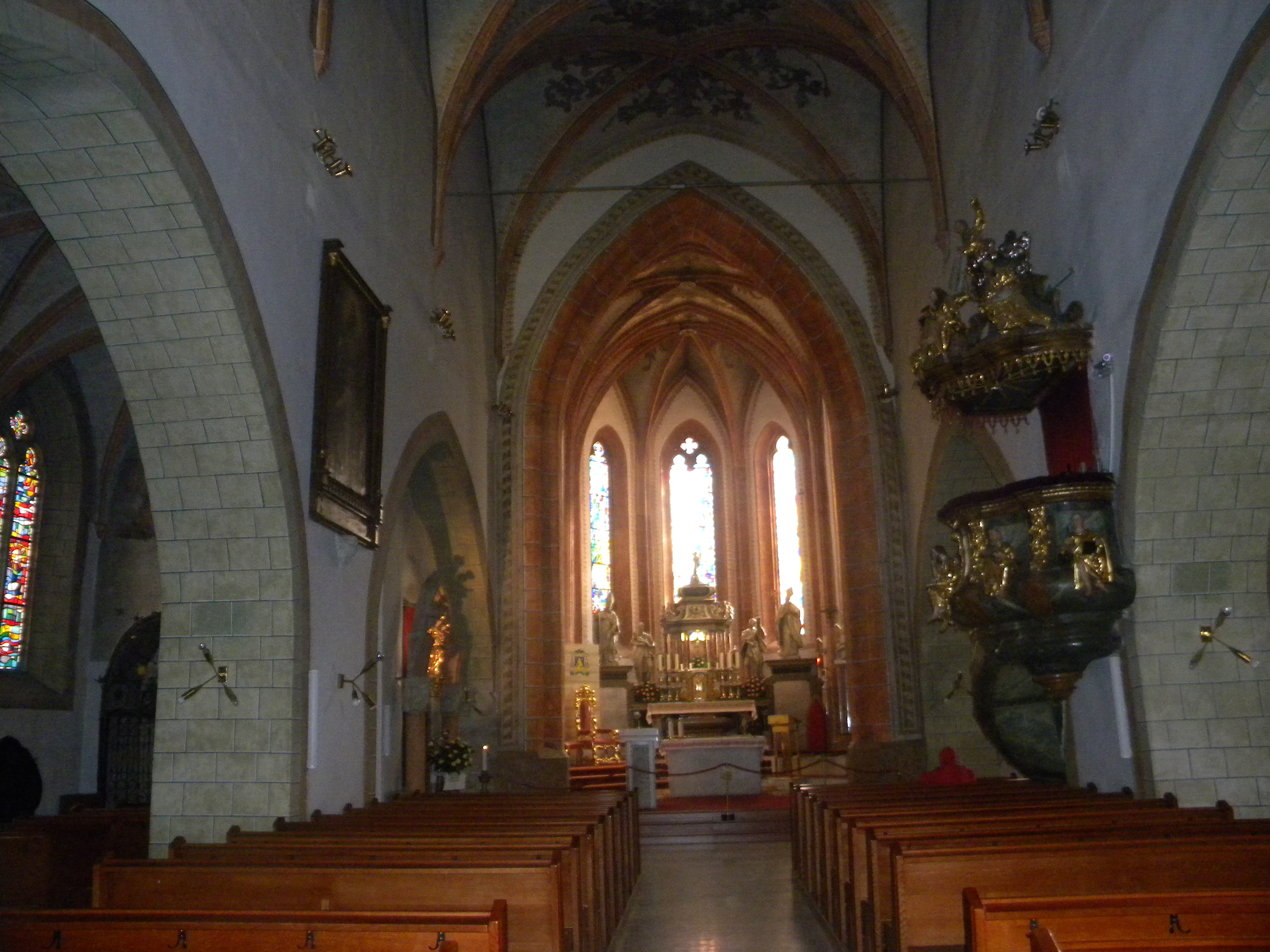 sa